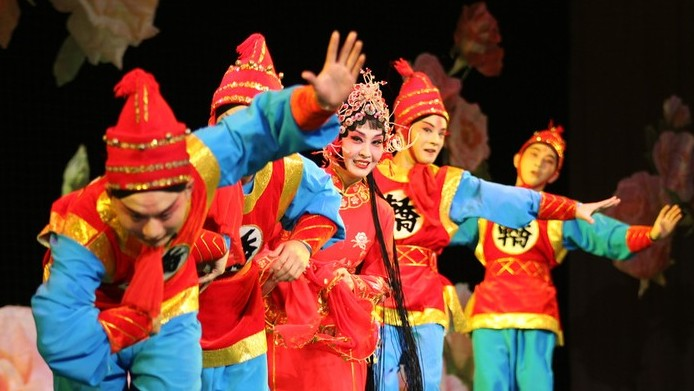 Yu opera